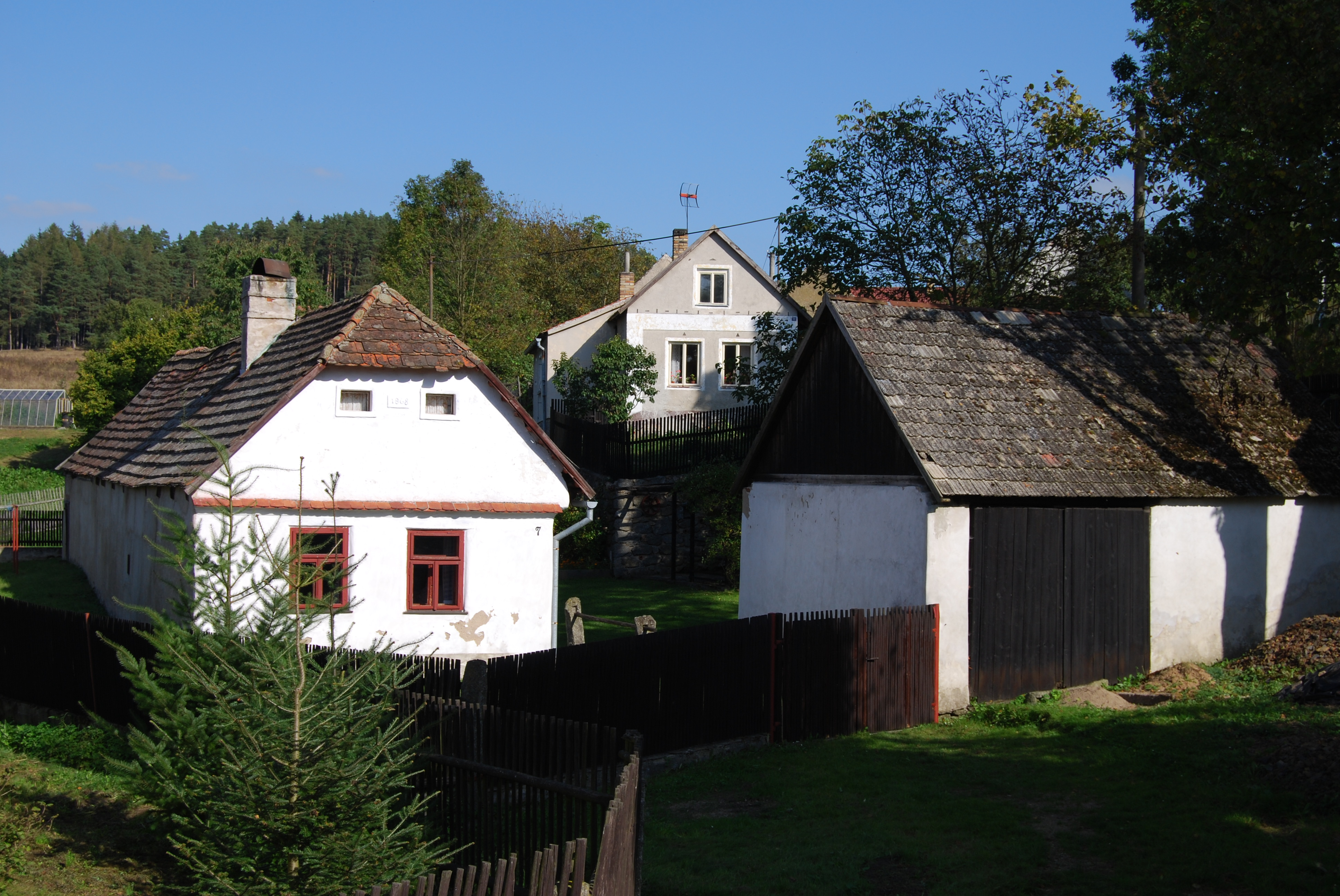 Sobědráž, part of Kostelec nad Vltavou village in Písek District, Czech Republic.